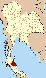 Map of Thailand highlighting Nakhon Si Thammarat province